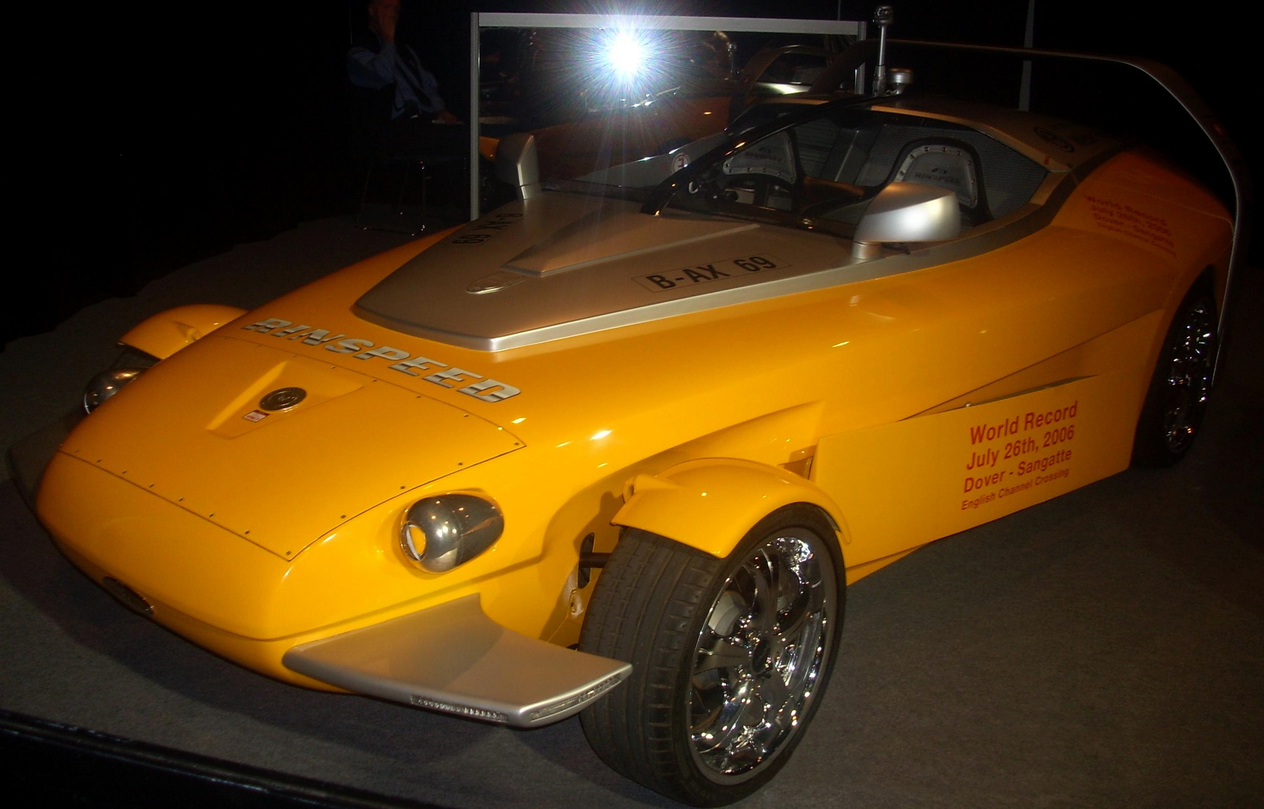 Rinspeed Splash photographed at the 2009 Montreal International Auto Show.